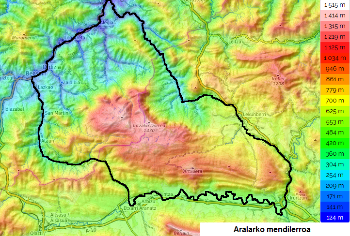 Topographic map showing the Aralar Range.